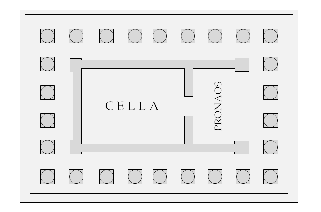 Map of the Temple of Mars D'après : - Rodolfo Lanciani, Forma Urbis Romae, Roma, 1893-1901 - V. Vespignani, Avanzi di tempio incerto della IX Regione di Augusto, 1873 - Pierre Gros, Hermodoros et Vitruve, 1973